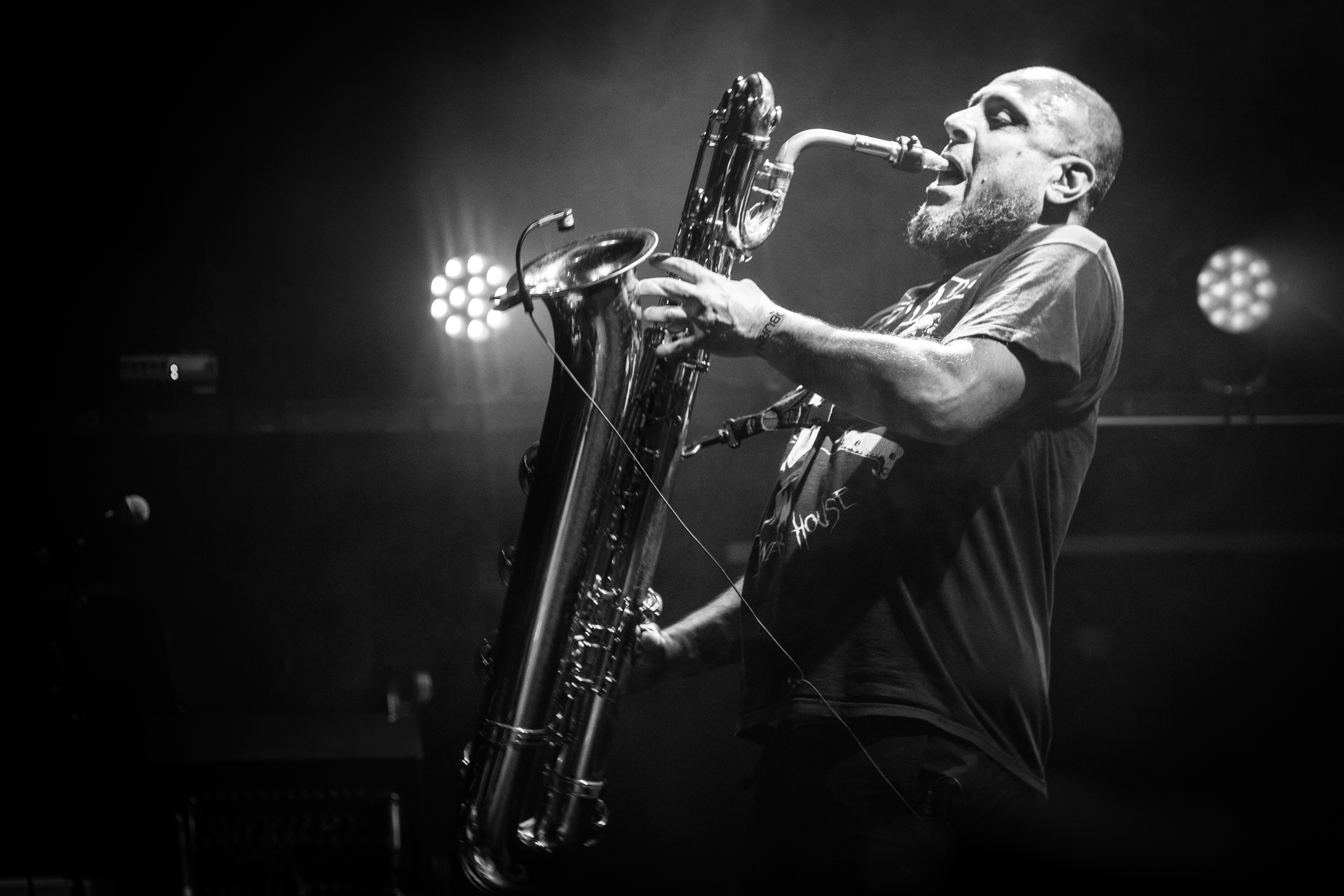 Zu live at Roadburn Festival, Tilburg, April 2017